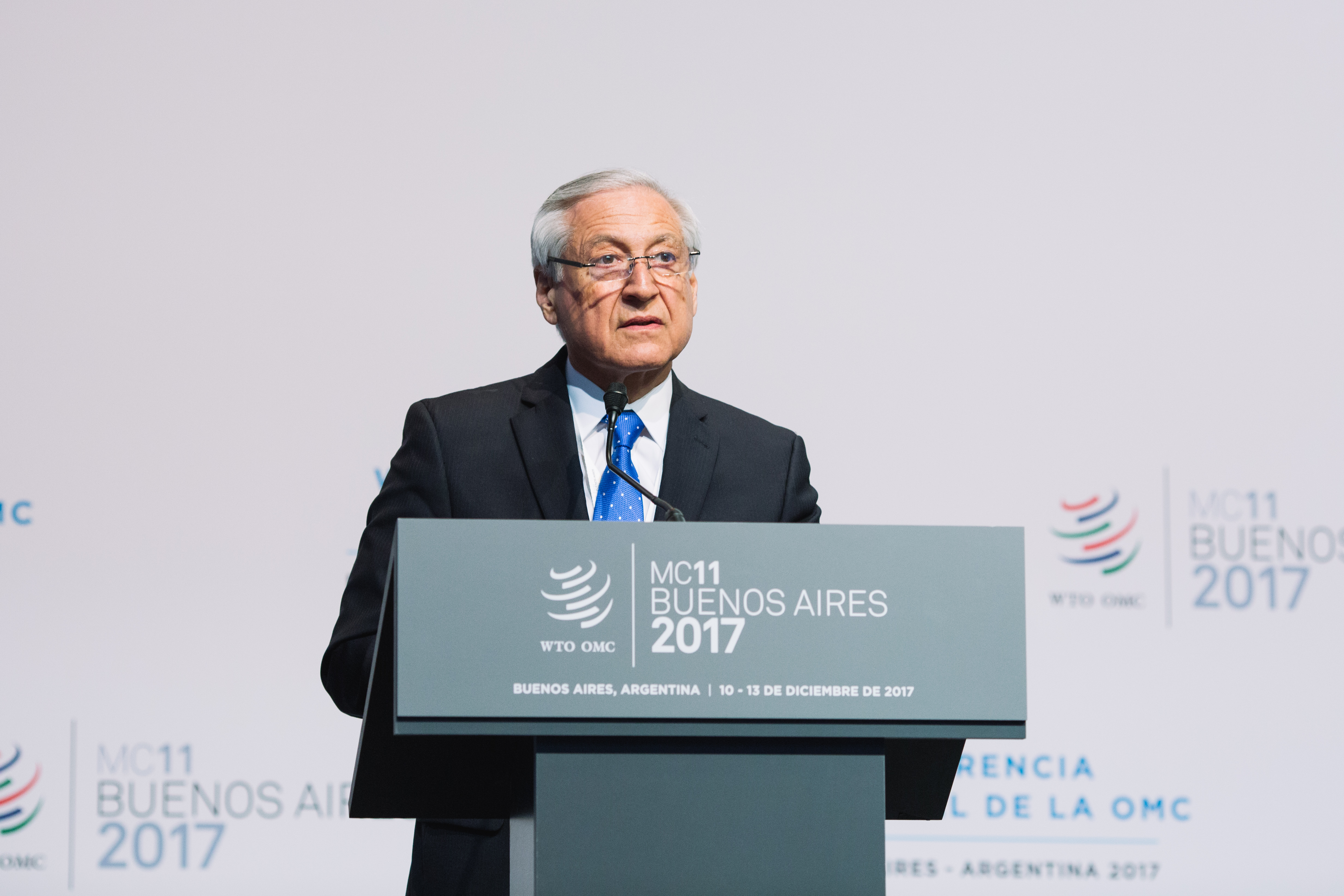 Photos from the opening plenary session photo gallery may be reproduced provided attribution is given to the WTO and the WTO is informed. Photos: © WTO/ Cuika Foto